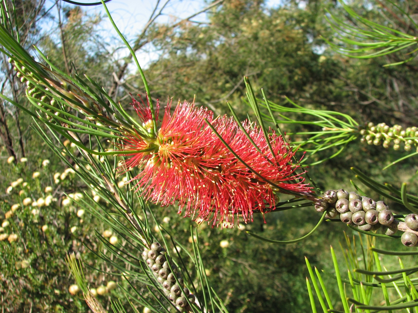 Callistemon teretifolius Peter Francis Points Arboretum, Coleraine, Victoria, Australia